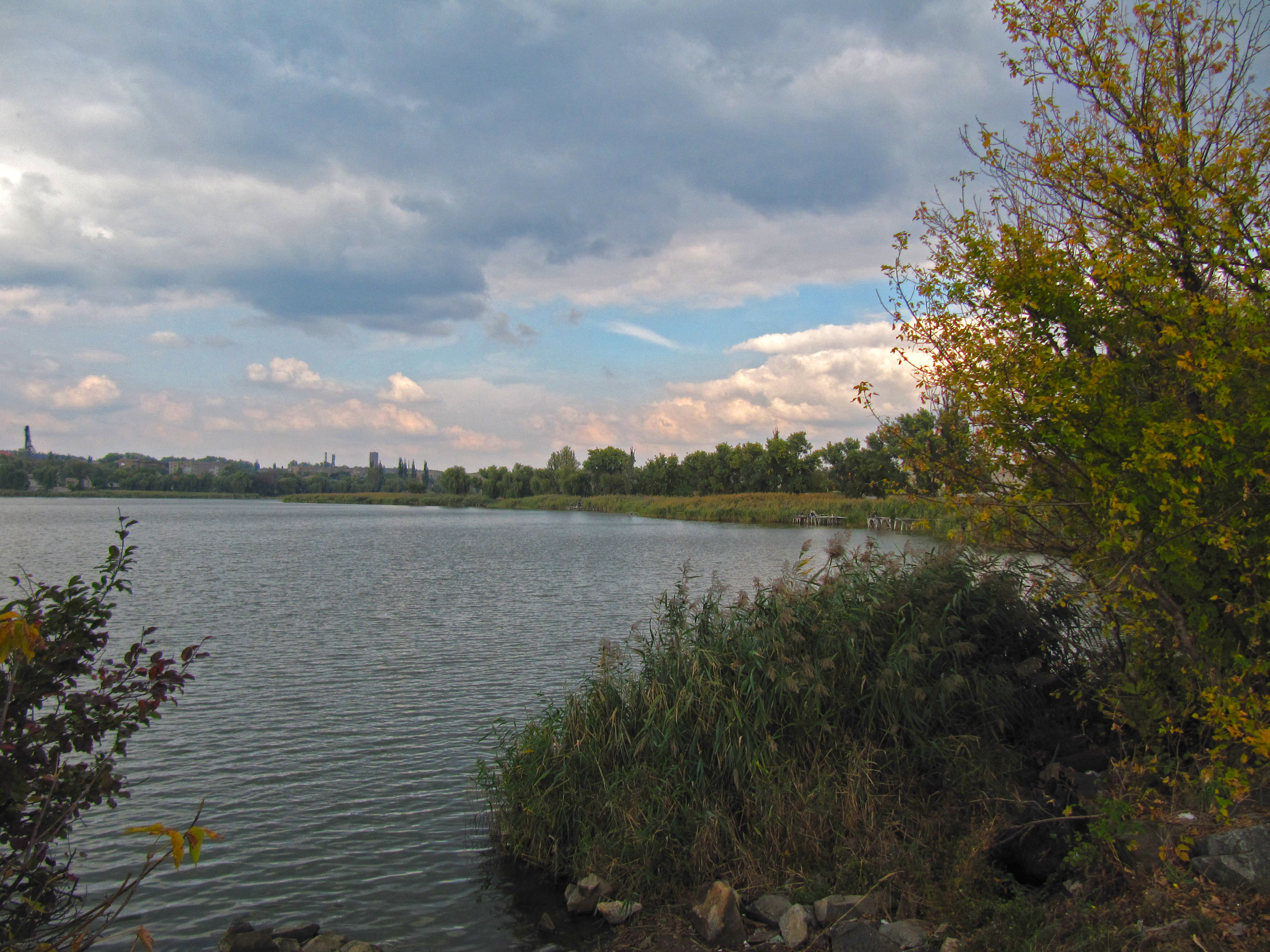 Ancient Scythian settlement called "Sokolivka" in Kryvyi Rih, Ukraine